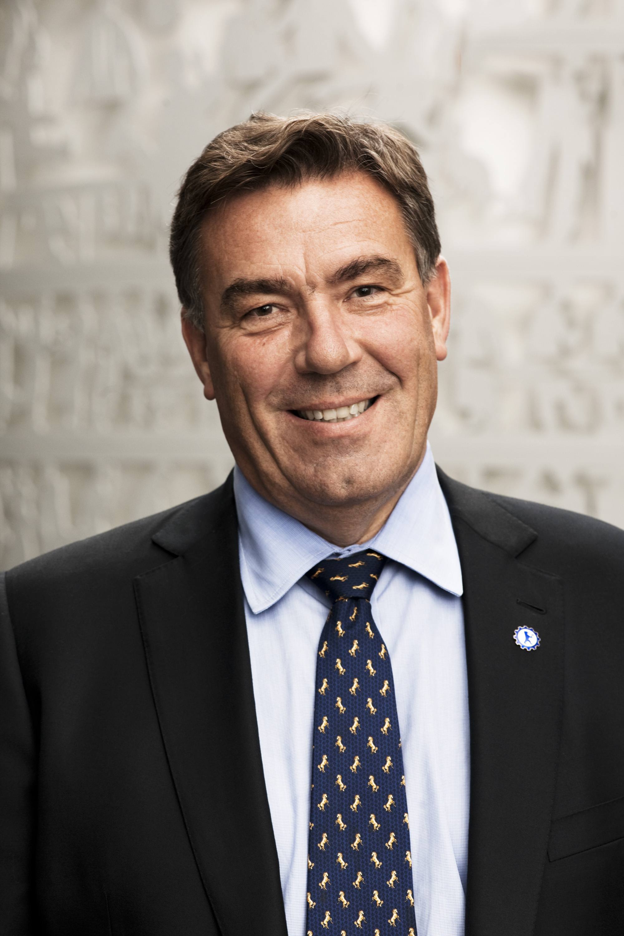 Stein Erik Hagen, Chairman of the board of Orkla. Photo: Guri Dahl